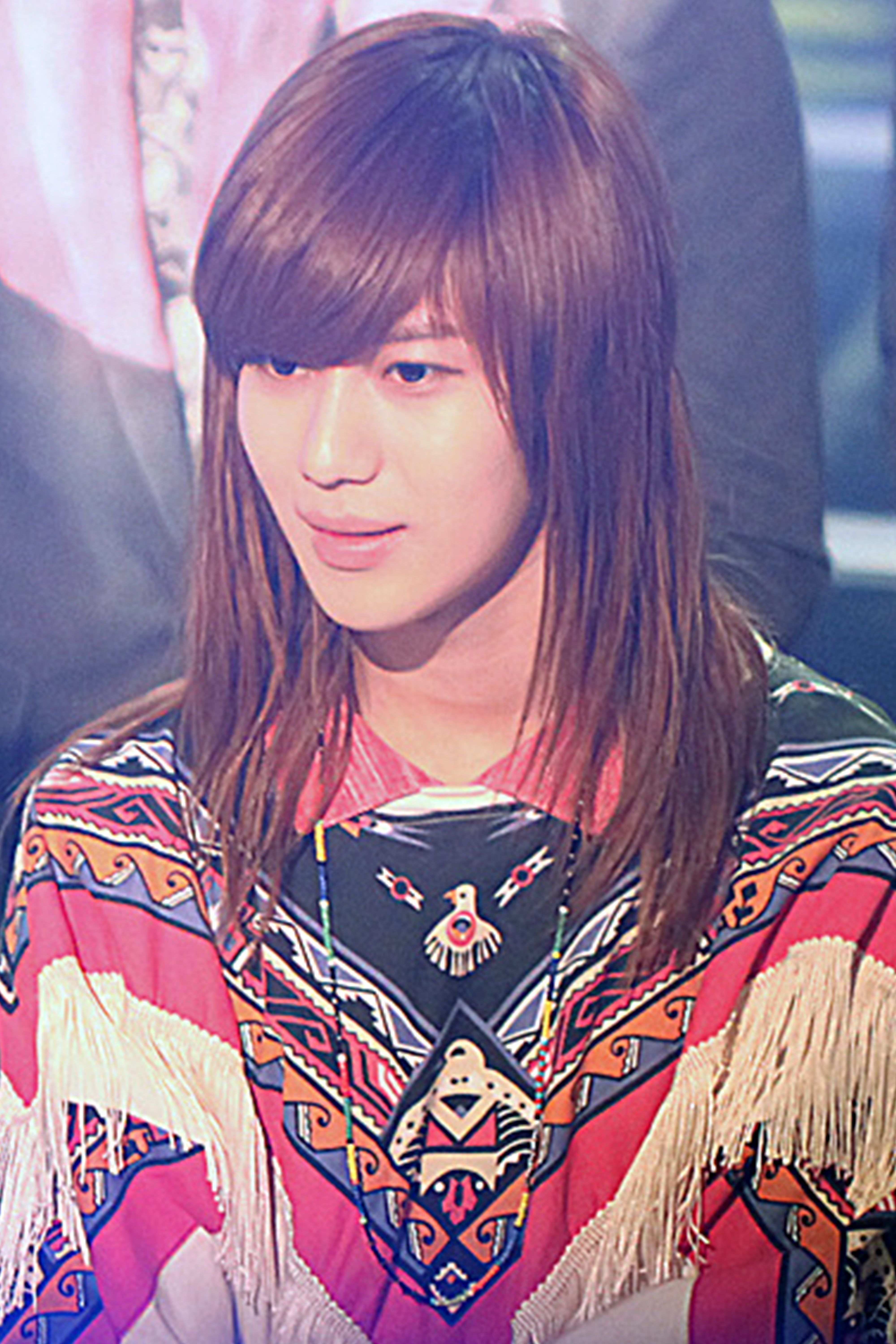 Taemin during the Show Champion, on March 27, 2012.